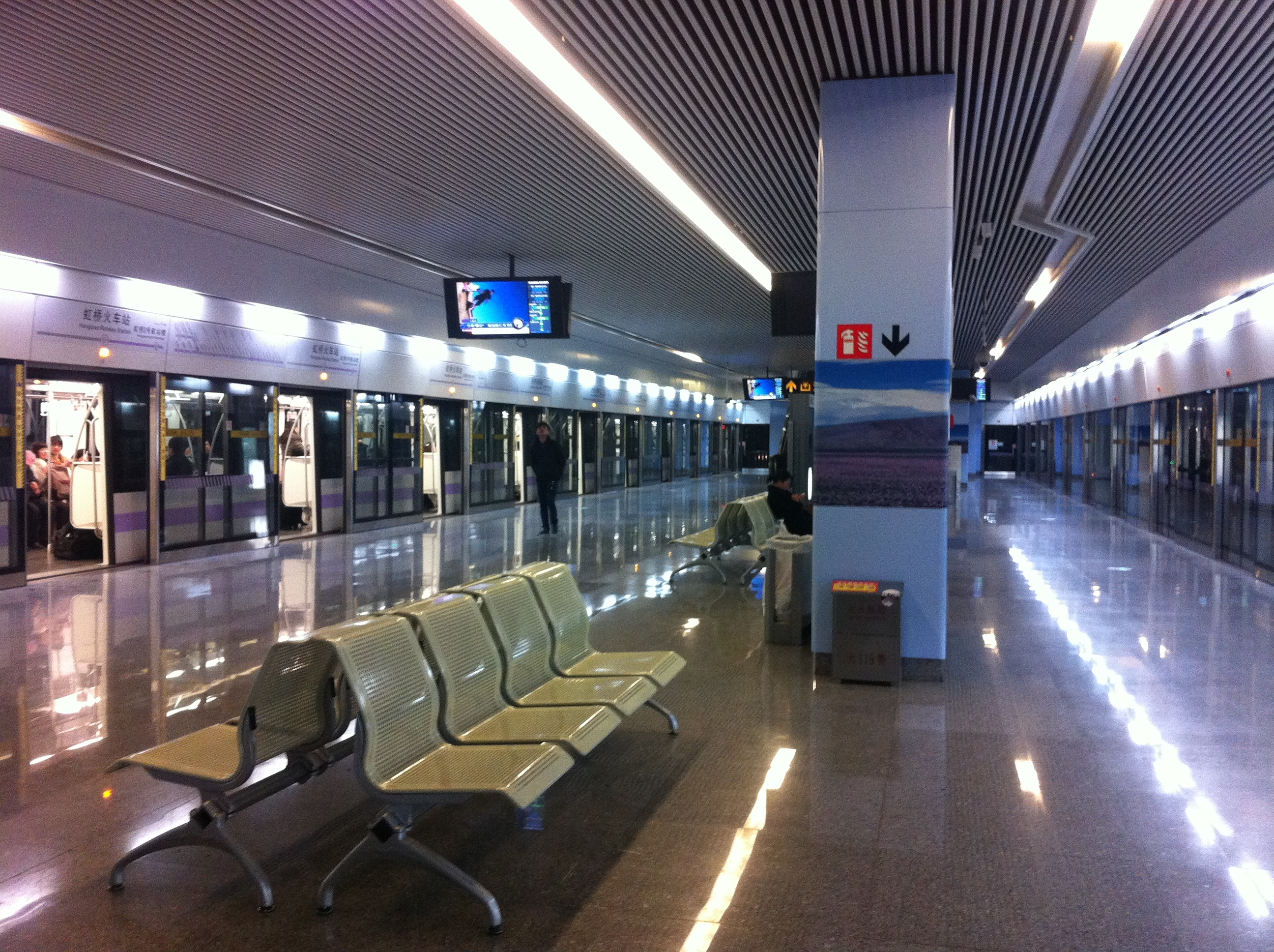 Line 10 Platform of Hongqiao Railway Station Station